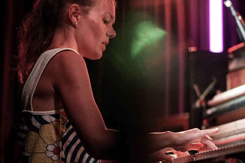 Kathrine Windfeld at Aarhus Jazz Festival, Denmark 2018